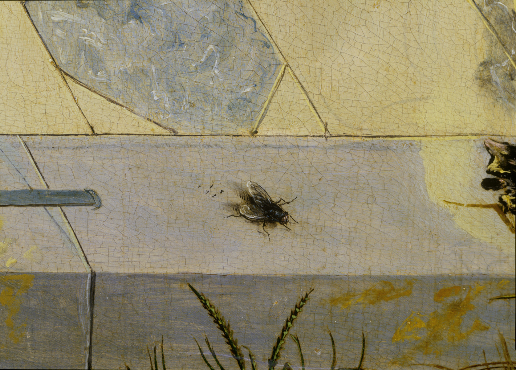 Retable de Saint Thomas - mouche